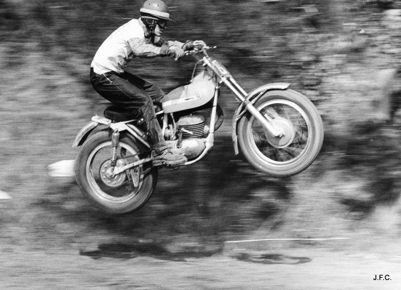 Joan Font on his Montesa Cappra 360 at the Cardedeu circuit (Catalonia) during the 1969 6 Hours resistence